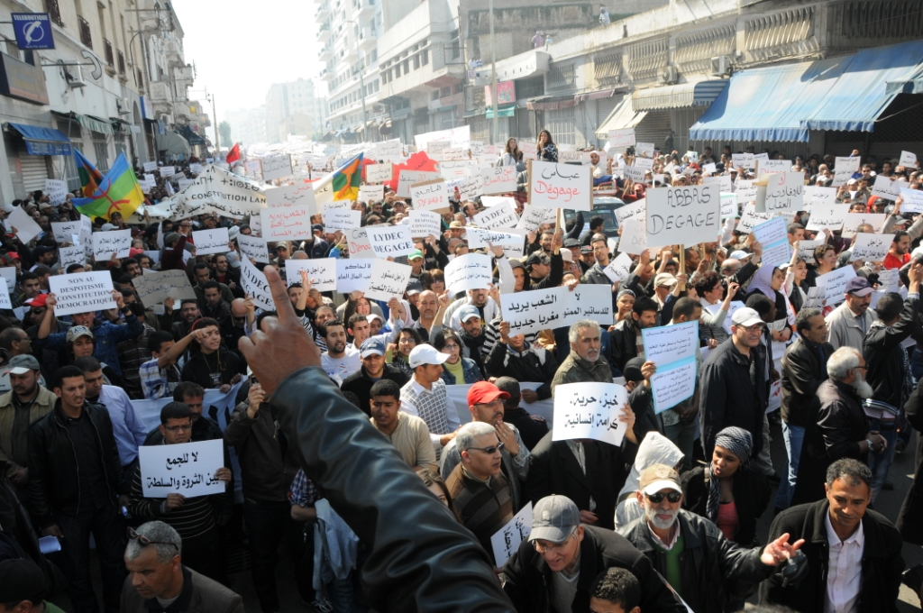 [Mawassi Lahcen] Protestors in Casablanca demand that authorities follow through on promises of political reform.